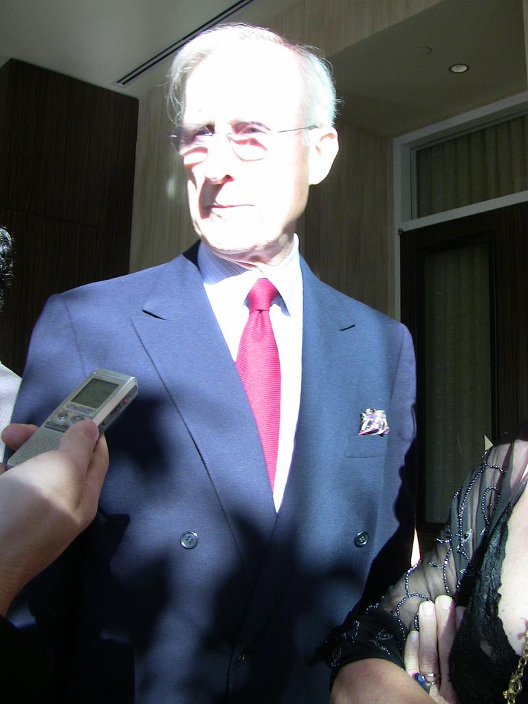 Actor James Cromwell at 23rd Genesis Awards - Beverly Hills, California.